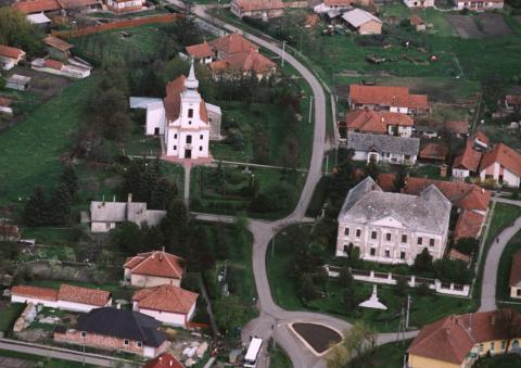 Jánoshida, Hungary, aerialphorography